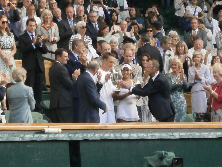 Heather Watson in the Royal Box at Wimbledon after winning the mixed doubles title.